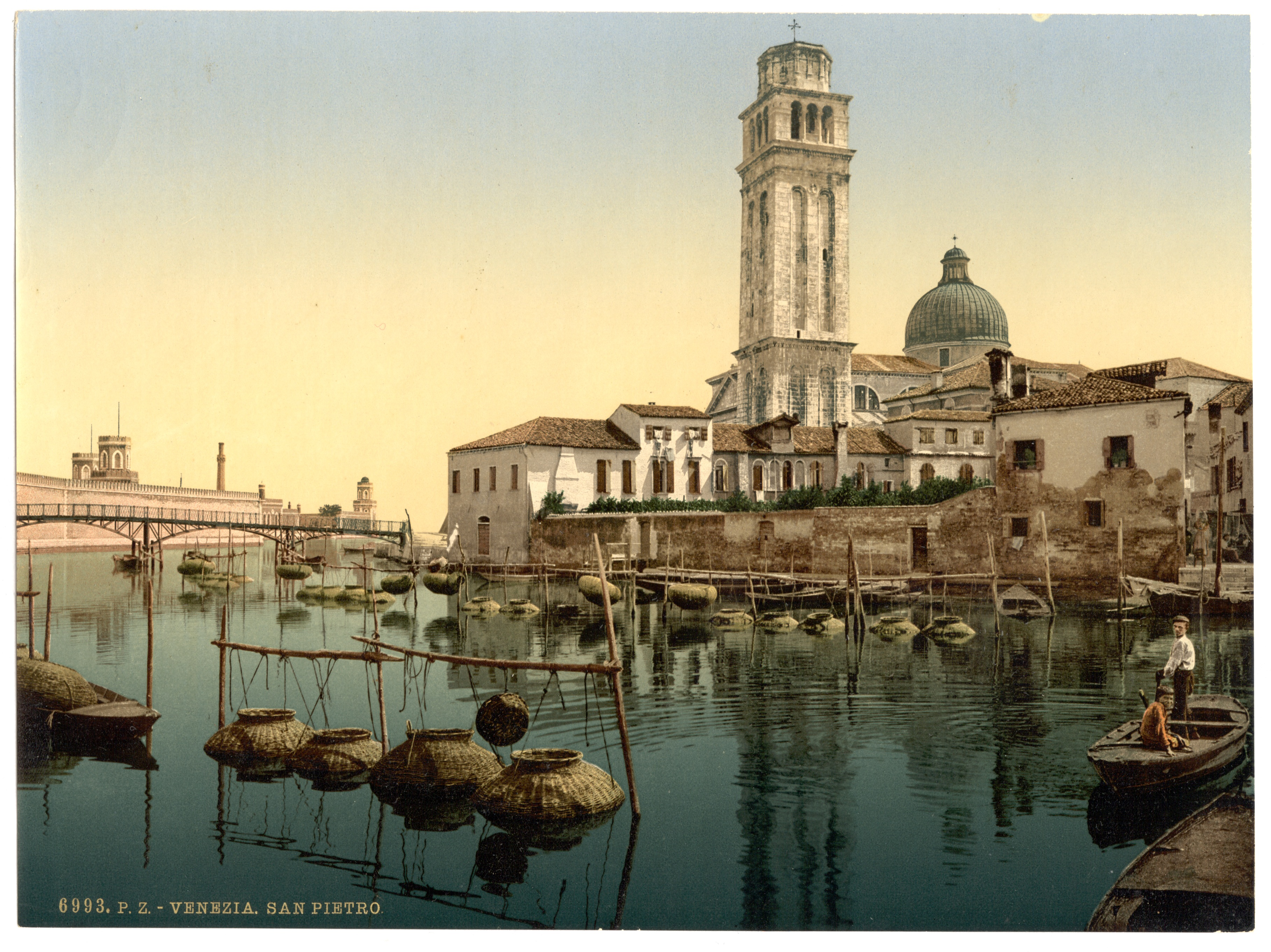 Print no. "6993".; More information about the Photochrom Print Collection is available at Forms part of: Views of architecture and other sites in Italy in the Photochrom print collection.; Title from the Detroit Publishing Co., Catalogue J-foreign section, Detroit, Mich. : Detroit Publishing Company, 1905.